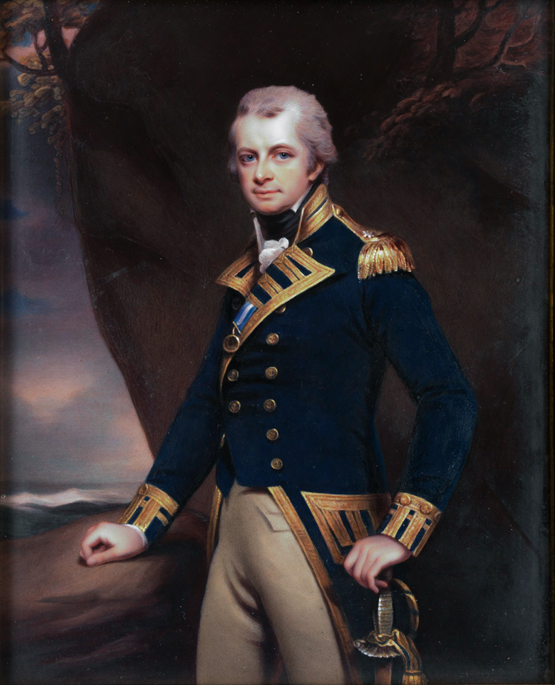 John Willett Payne (1752 - 1803), Rear-Admiral of the Red enamel 19.8 x 16 cm March 1804